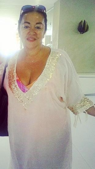 Oya Aydoğan, a Turkish actress.